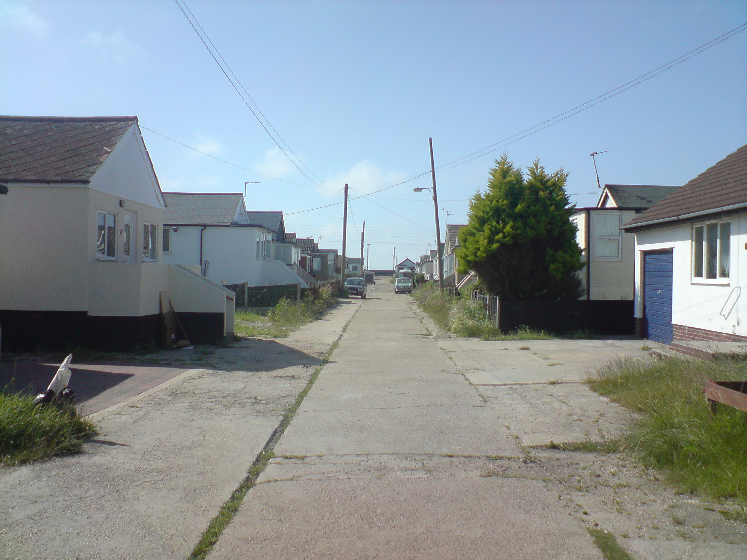 Typical street layout in Jaywick